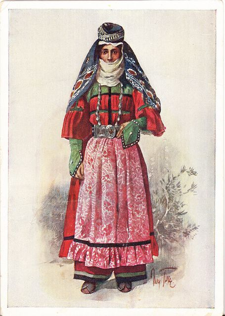 Max Tilke – People of the Caucasus Series, 18 - Karapapakh, A Woman from Kars, Turkey